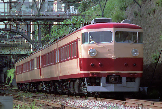 Japanese National Railways 157 series EMU including the dedicated imperial train car KuRo 157 on an empty stock working on the Yamanote Freight Line near Meguro Station